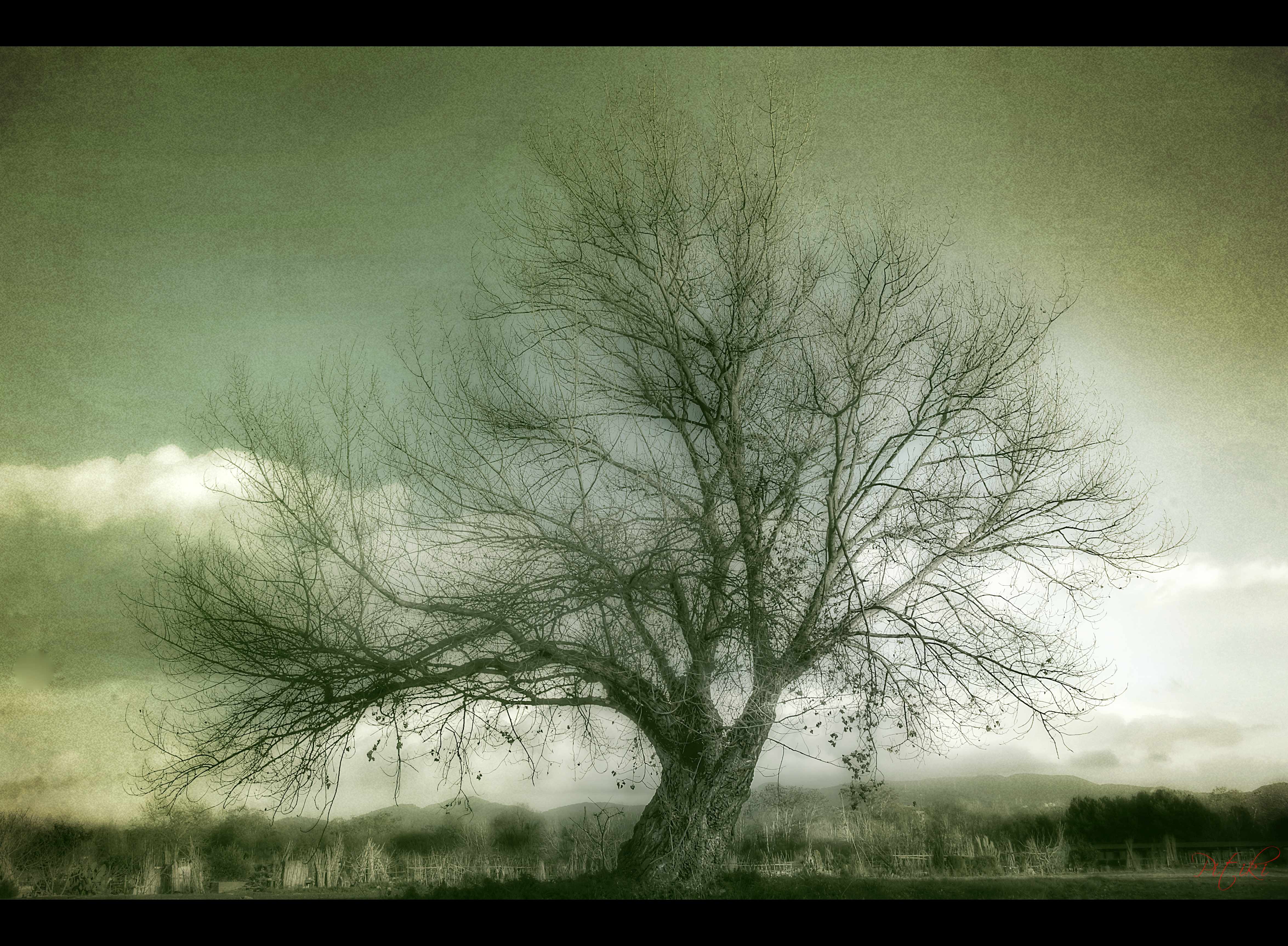 CINEMA ARBOL Y OTROS CUENTOS